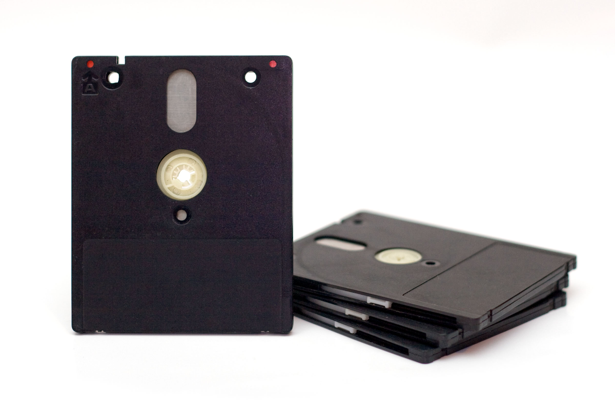 3" floppy disks, as used by Amstrad/Schneider, Sony, Tatung and Osborne computers.